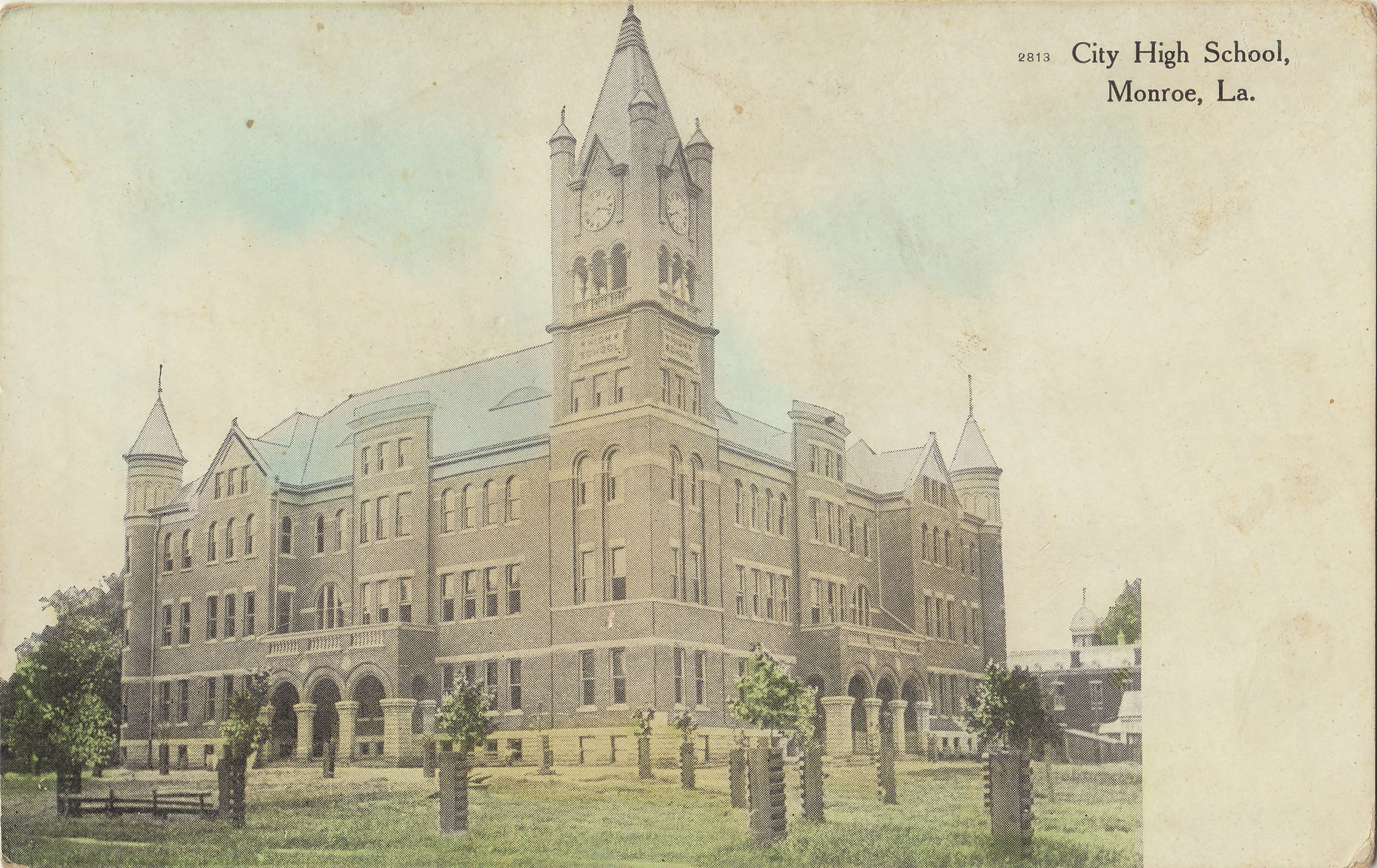 Focal image from a postcard (postmarked 1907 from Monroe, LA) labelled "Monroe City High School."